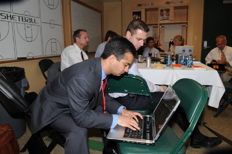 Carlos Curbelo and Danny Lopez blog the debate